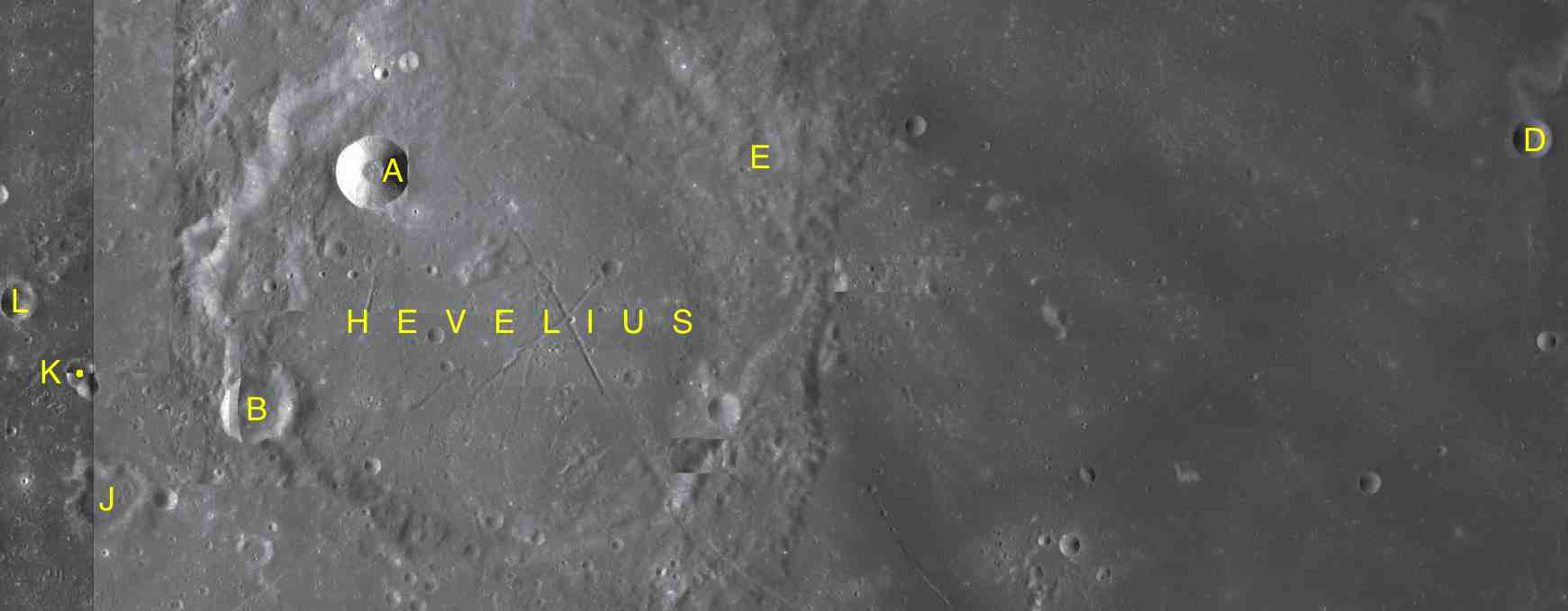 Parts of the charts LAC-55, LAC-56 used for the presentation